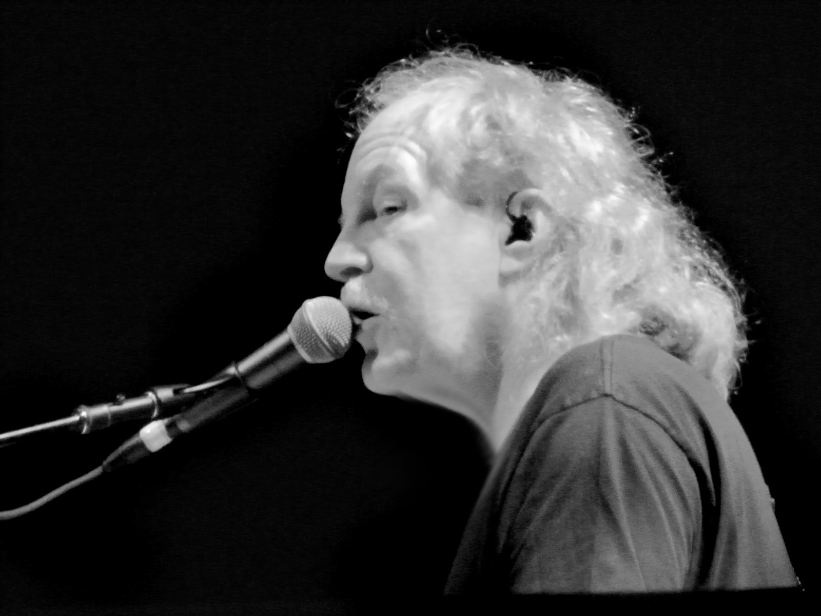 Jimmy Greenspoon of Three Dog Night performing 8/25/2012 at the Sunrise Marketplace Outdoor Pavilion Citrus Heights, CA